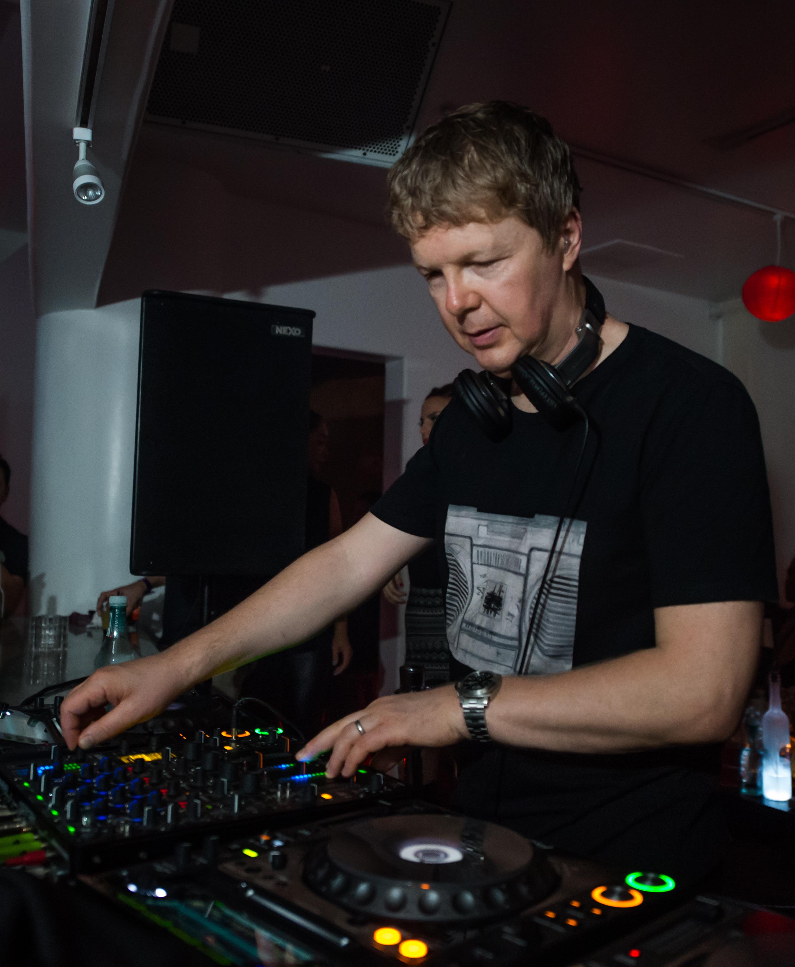 John Digweed performing at Eleven44 in Honolulu, Hawaii, promoted by Odinworks on October 10, 2014